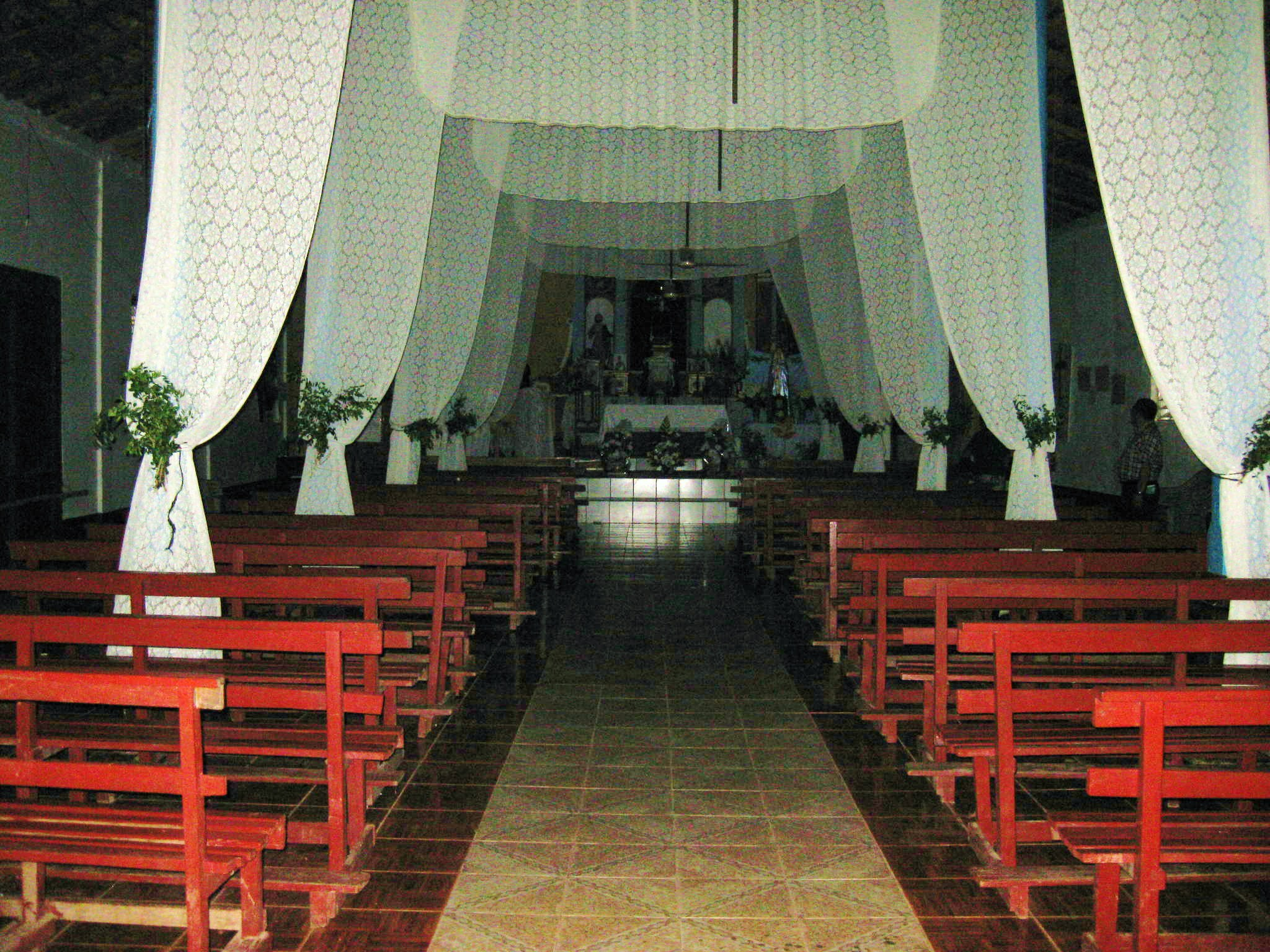 Municipality of San Juan de Cinco Pinos, Chinandega Department, Nicaragua.